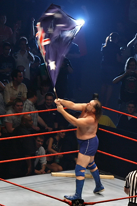 Hacksaw Jim Duggan waving the flag prior to his match against Santino Marella; Duggan usually waves the American flag, but in order to engender crowd support at this show in Australia he used the Australian flag instead. Note also his signature 2 x 4 in the ring corner by his feet. Taken during the WWE Raw - Survivor Series Tour, at Rod Laver Arena, Melbourne Park, Melbourne, Australia. Duggan won the match, pinning Marella following a three-point stance tackle.